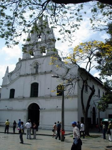 Church of the "True Cross" in Medellín, Colombia